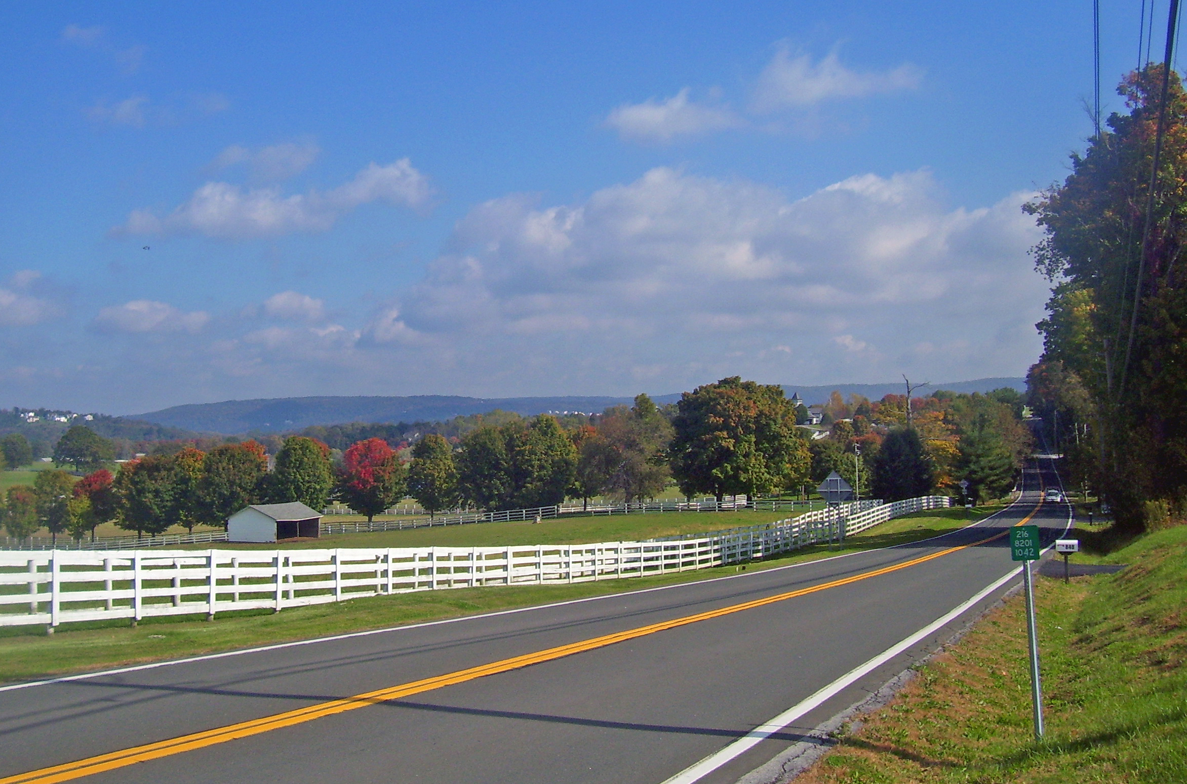 View of southern central Dutchess County landscape from NY 216 near Green Haven